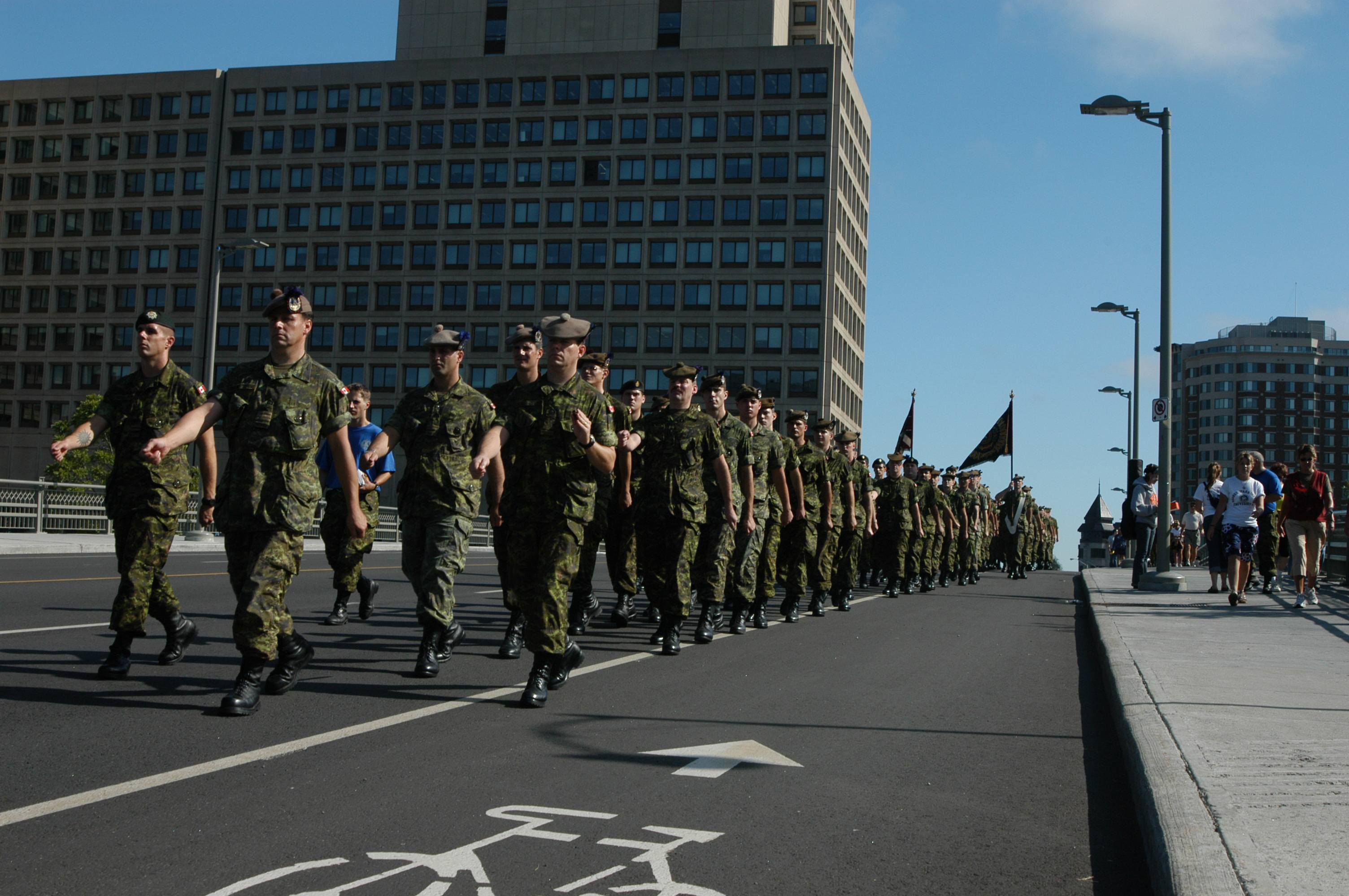 The Cameron Highlanders on Parade - Laurier Ave. W., Ottawa - 11 September 2004